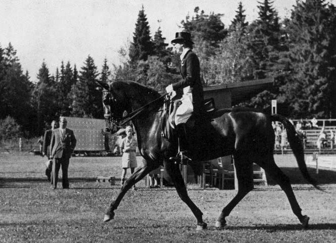 Lis Hartel and Jubilee at the 1952 Summer Olympics in Helsinki.